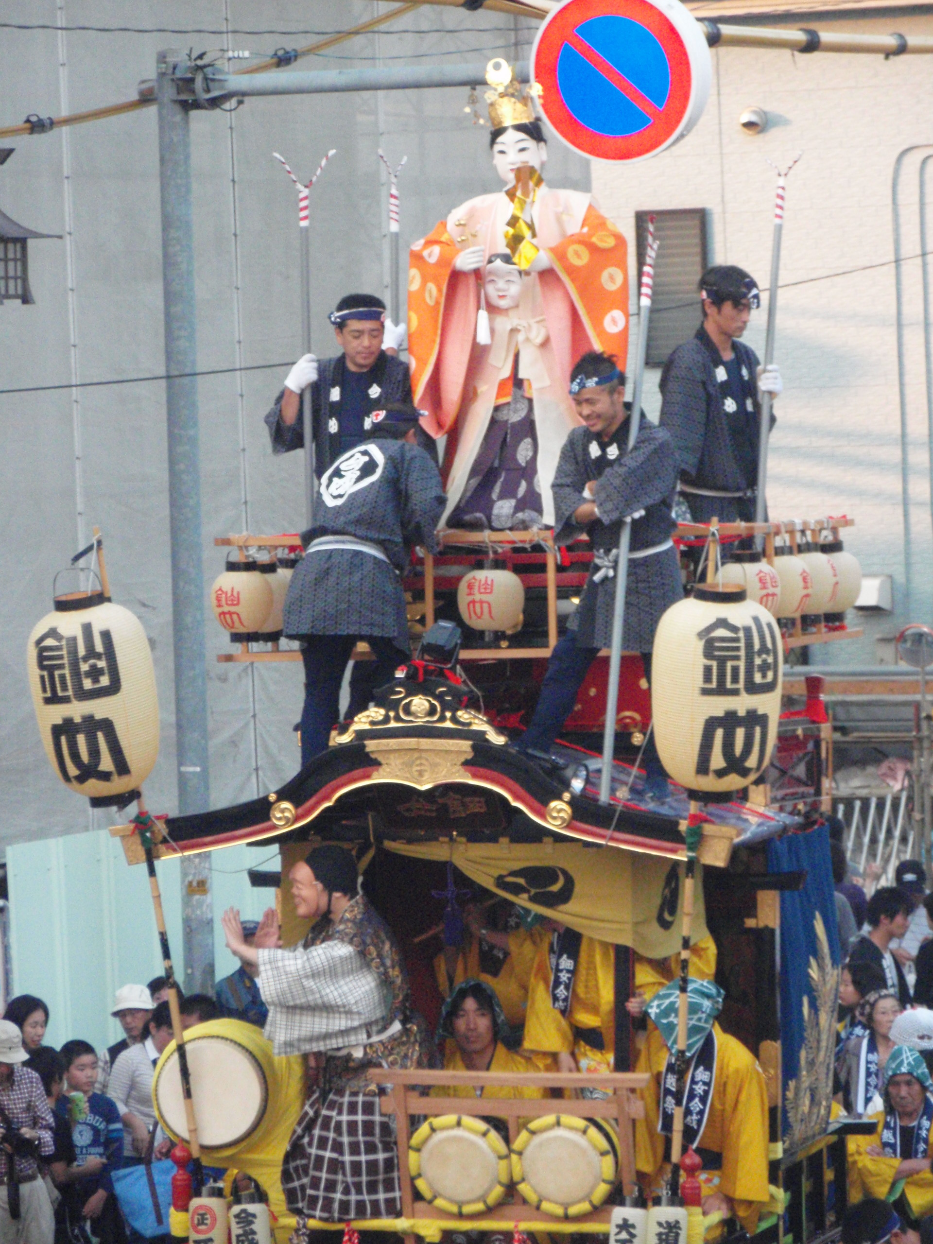 a float in Kawagoe Festival, Kawagoe city, Japan(2009)